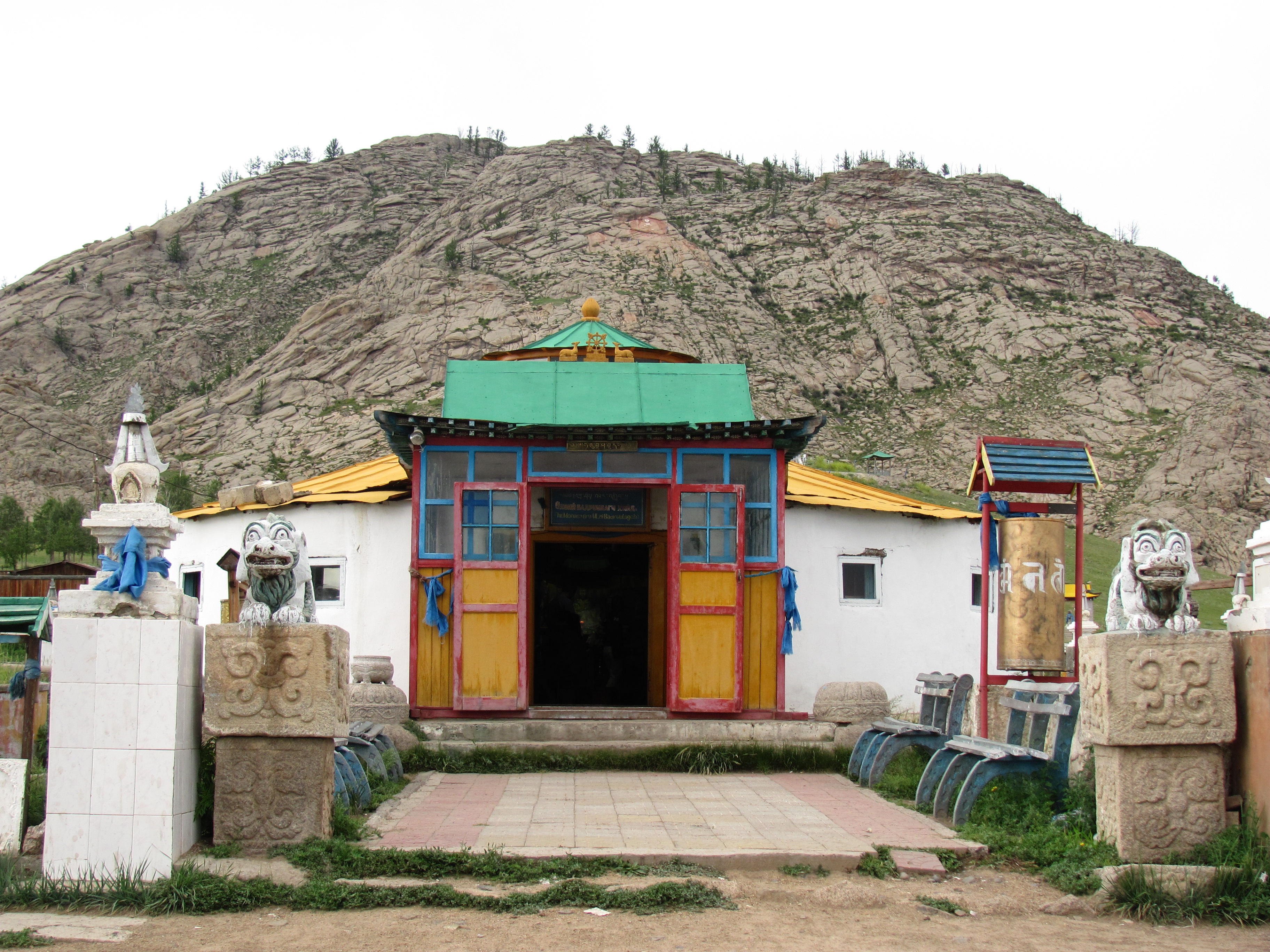 Buyandelgerüülekh Monastery, Tsetserleg, Mongolia.